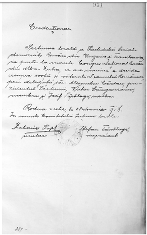 Mandate of the Local unit of the Romanian Social-Democratic Party of Hungary and Transylvania , in which it says that the Romanian politician Victor Sângeorzan was elected, on 28th of november 1918, deputy in the Great National Assembly from Alba Iulia, Romania, 1918Română: Credenționalul Secției locale a Partidului Social-Democrat Român din Ungaria și Transilvania, în care scrie ca Victor Sângeorzan a fost ales, la data de 28 noiembrie 1918, deputat în Marea Adunare Națională de la Alba Iulia, 1918